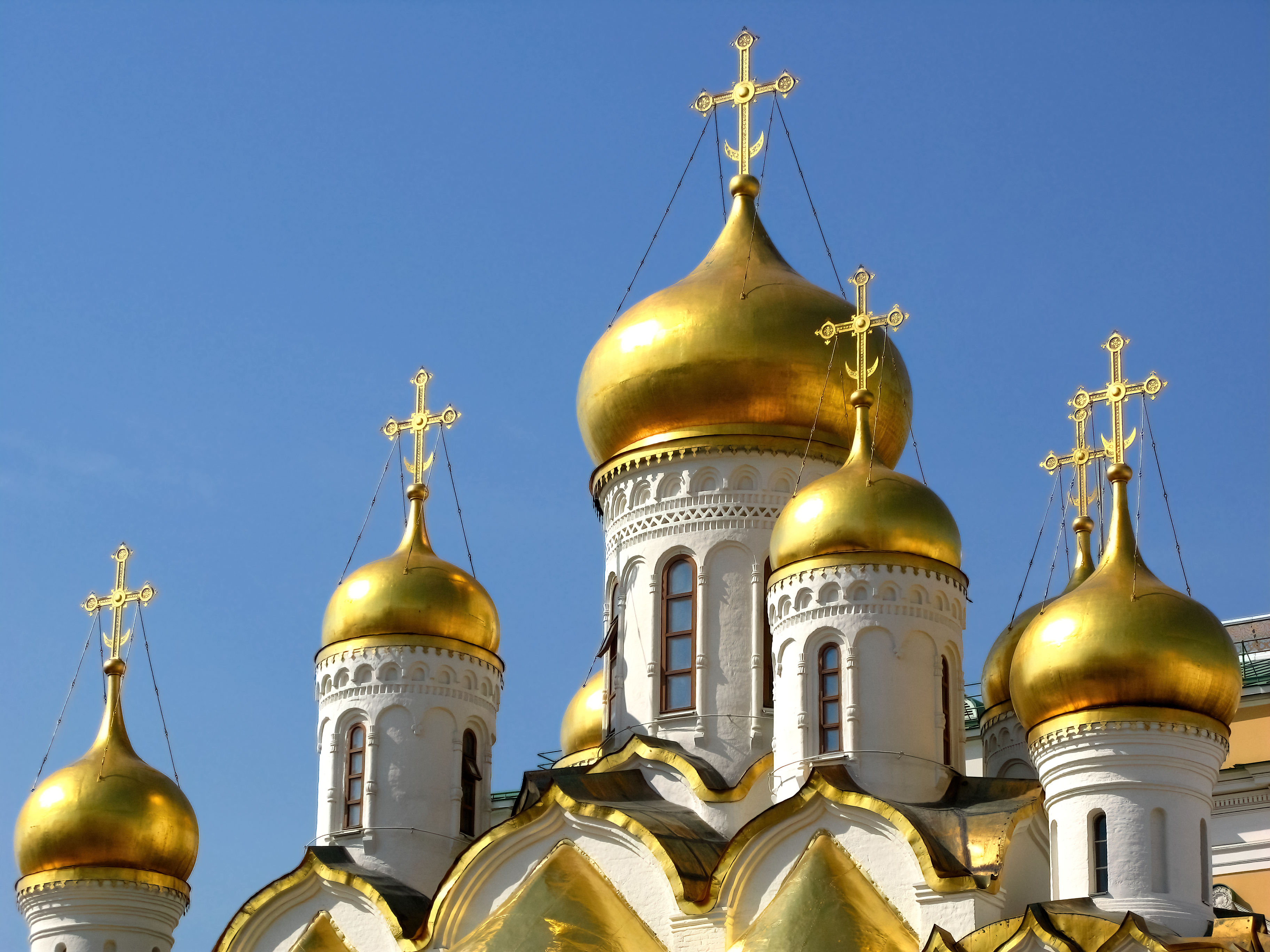 Onion domes of Cathedral of the Annunciation, Moscow Kremlin, Russia. Built between 1484-1489.